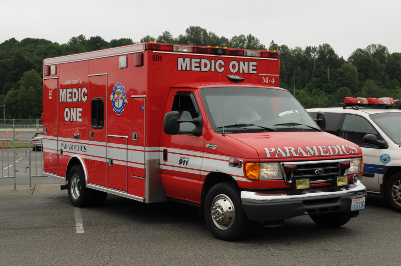 King County Medic One Paramedic Unit (Medic -4 shown)